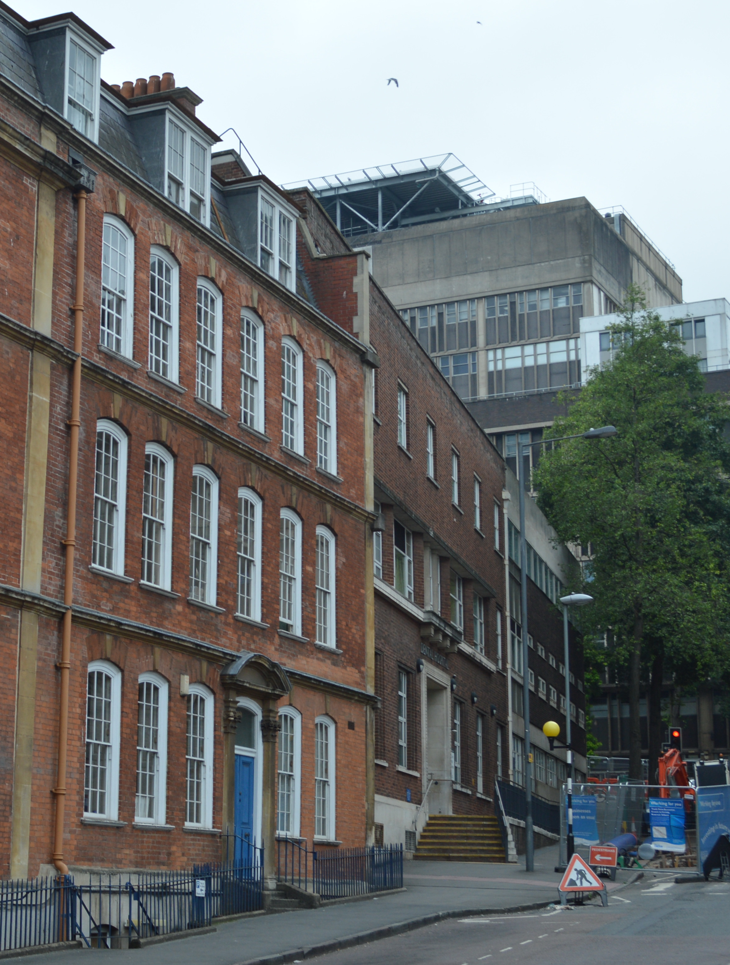 Front of the University of Bristol Dental Hospital. Part of the Bristol Royal Infirmary, with helipad, is in the background.